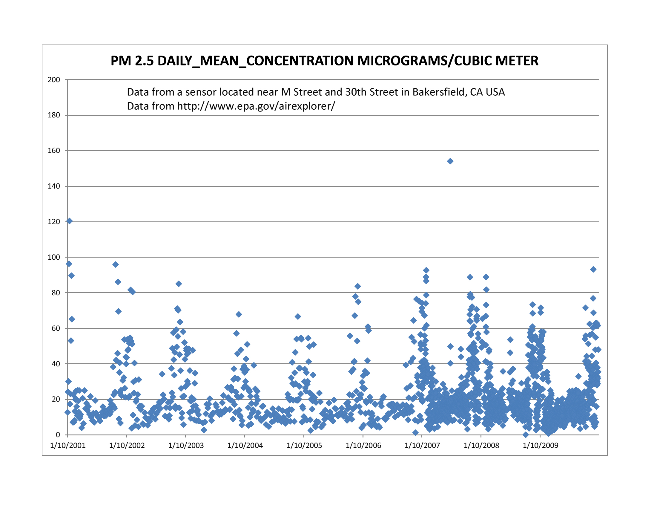 This is a graph of PM 2.5 concentration vs time, near the intersection of 30th Street and M Street in Bakersfield, CA, USA. There is a seasonal variation of pollution with time.